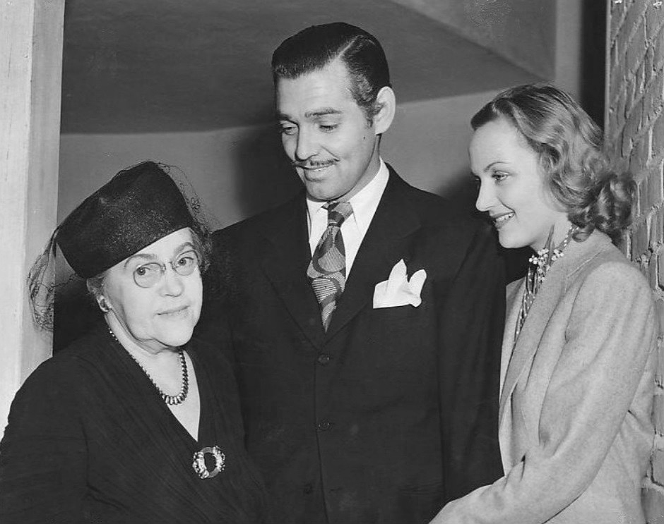 Photo of Clark Gable, Carole Lombard and Mrs. Elizabeth Peters, the mother of Carole Lombard. It was originally taken after Gable and Lombard returned from their elopement to Kingman, Arizona, on March 31, 1939. The wire service re-issued the photo on January 16, 1942 after the death of Lombard and her mother in a plane crash in Nevada.